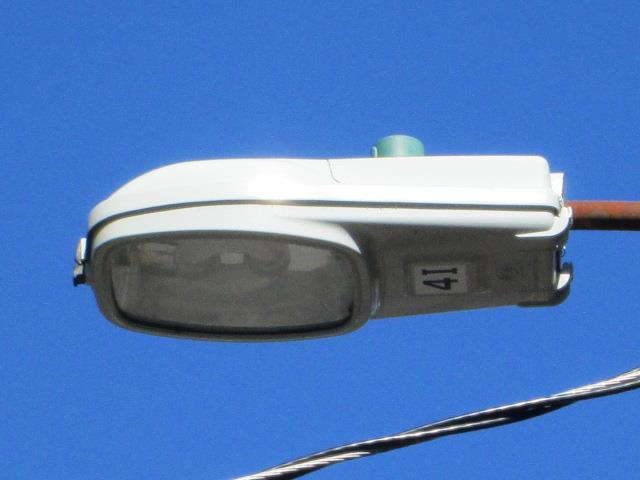 History of street lighting